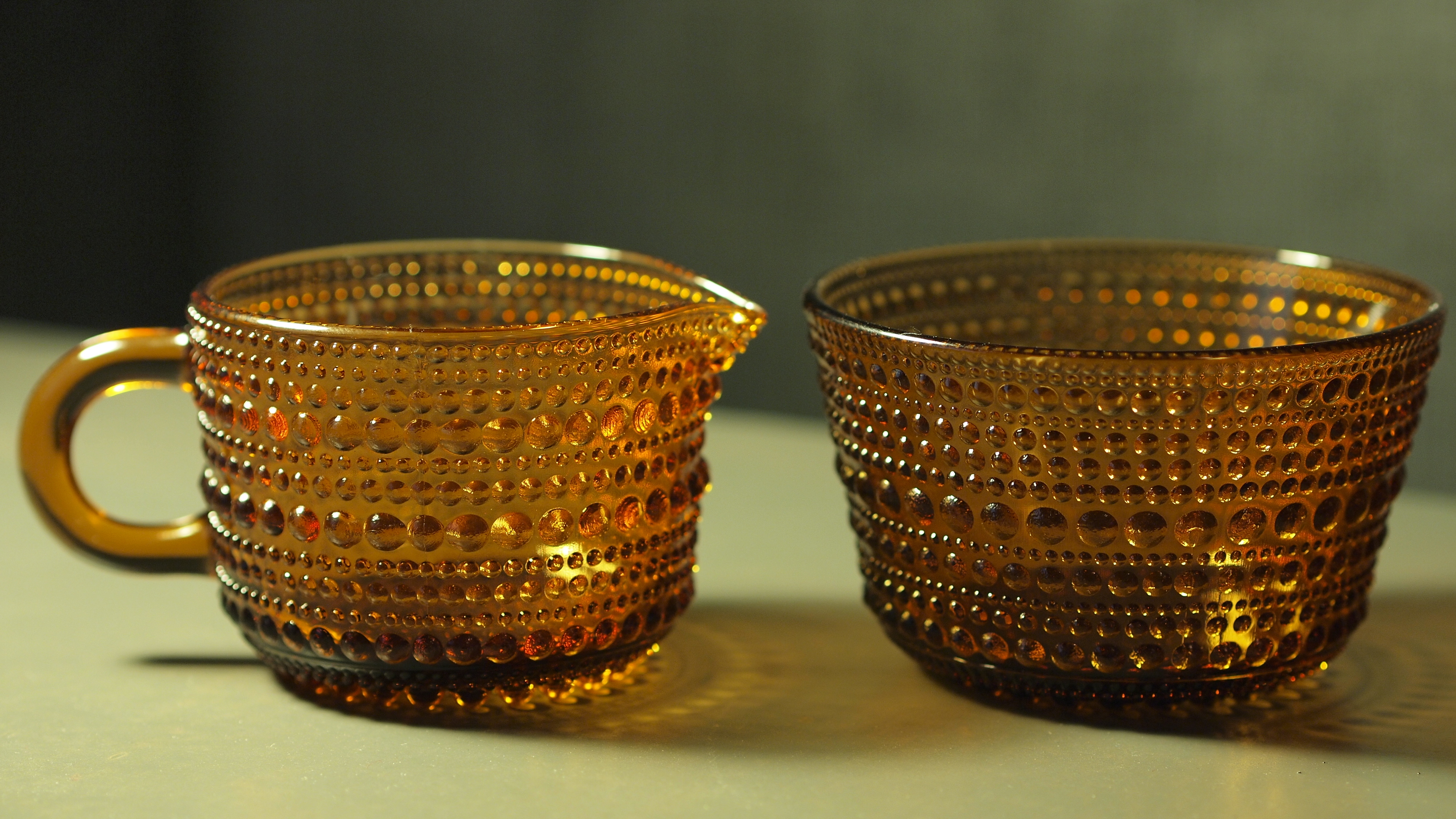 The creamer and the sugar bowl of Kastehelmi (’Dew Pearl’) series. Introduced in 1964, production ended at Nuutajärven lasitehdas in 1988. Design by Oiva Toikka.